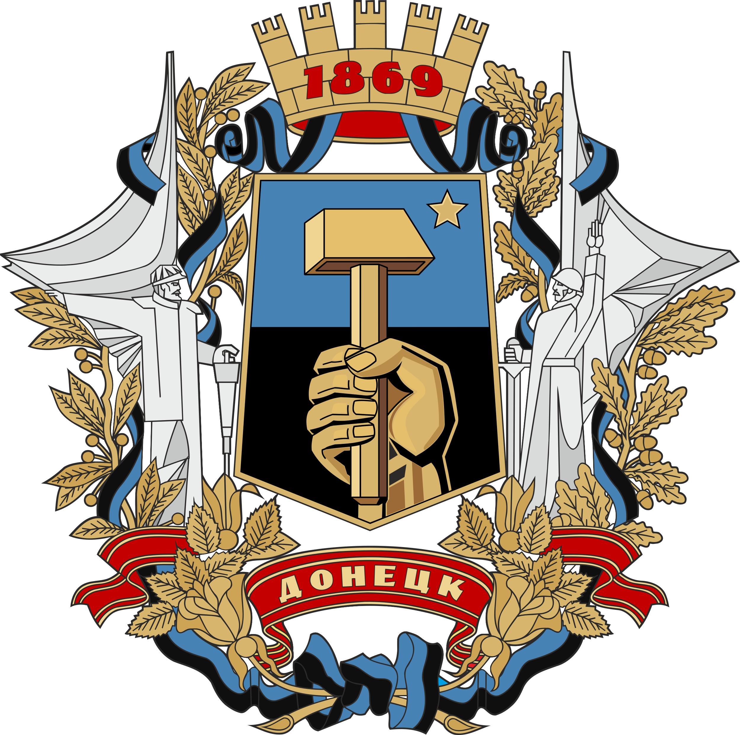 Coat of Arms of Donetsk city, Ukraine.